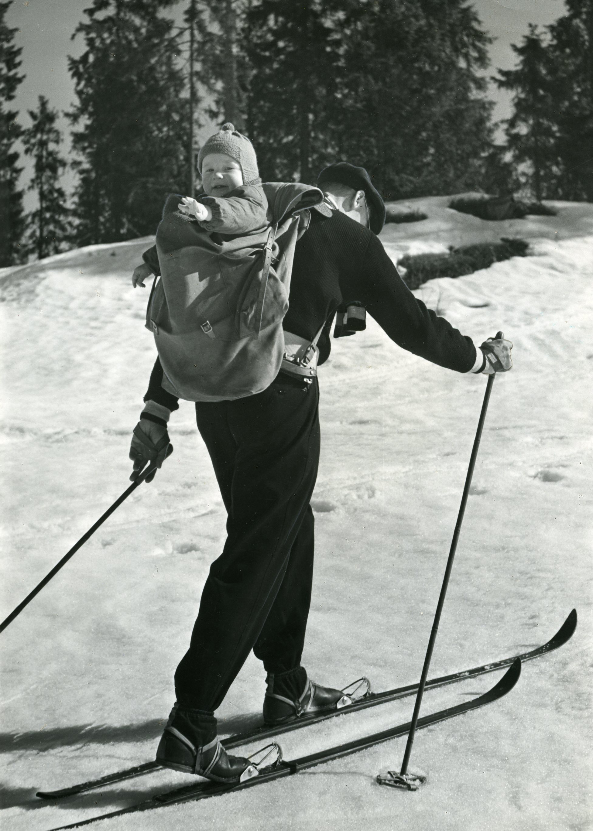 Image from National Archives of Norway's Flickr-Album [ "Riksarkivets julekalender 2011/National Archives advent calendar 2011 " ] (all images marked with "No known copyright restrictions")